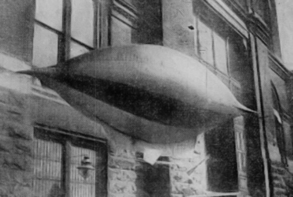 Electric Aerial Torpedo balloon made by Carl Myers